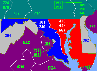 Map of the State of Maryland in blue with surrounding area codes showing Overlay Area Codes 410 and 443 in red.